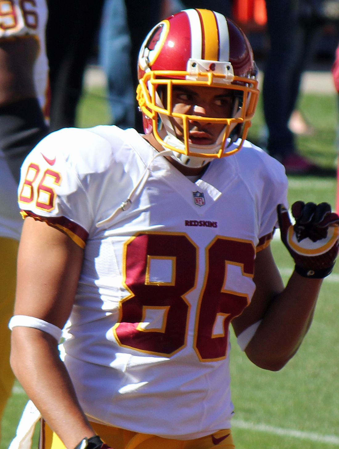 Jordan Reed, a player on the National Football League.